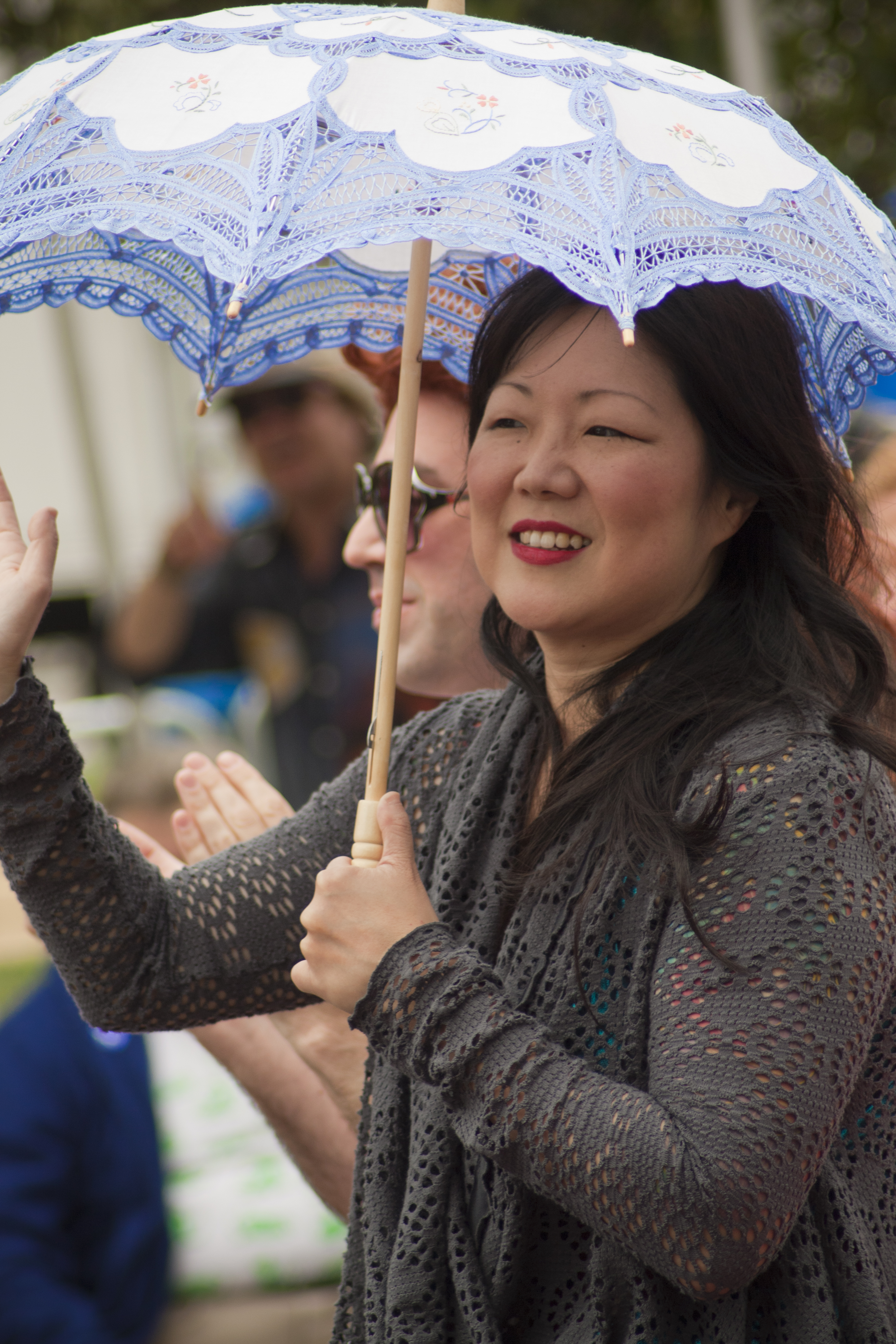 American actor Margaret Cho at Los Angeles Pride 2011.